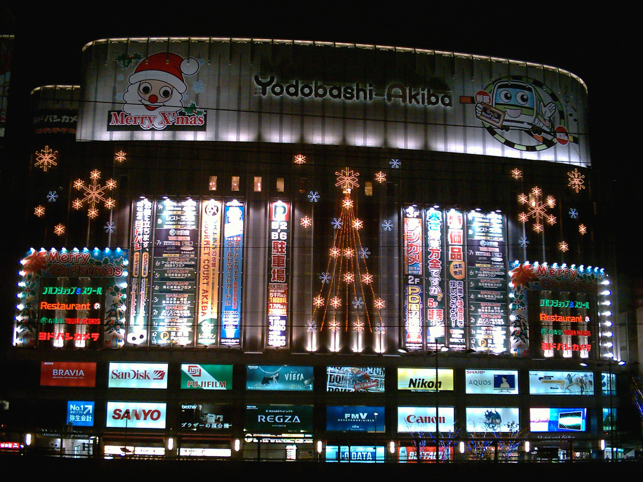 yodobashi-akiba-Department store akihabara City Japan Christmas illumination photography day, 2006.12.13. photography person kici ヨドバシカメラ